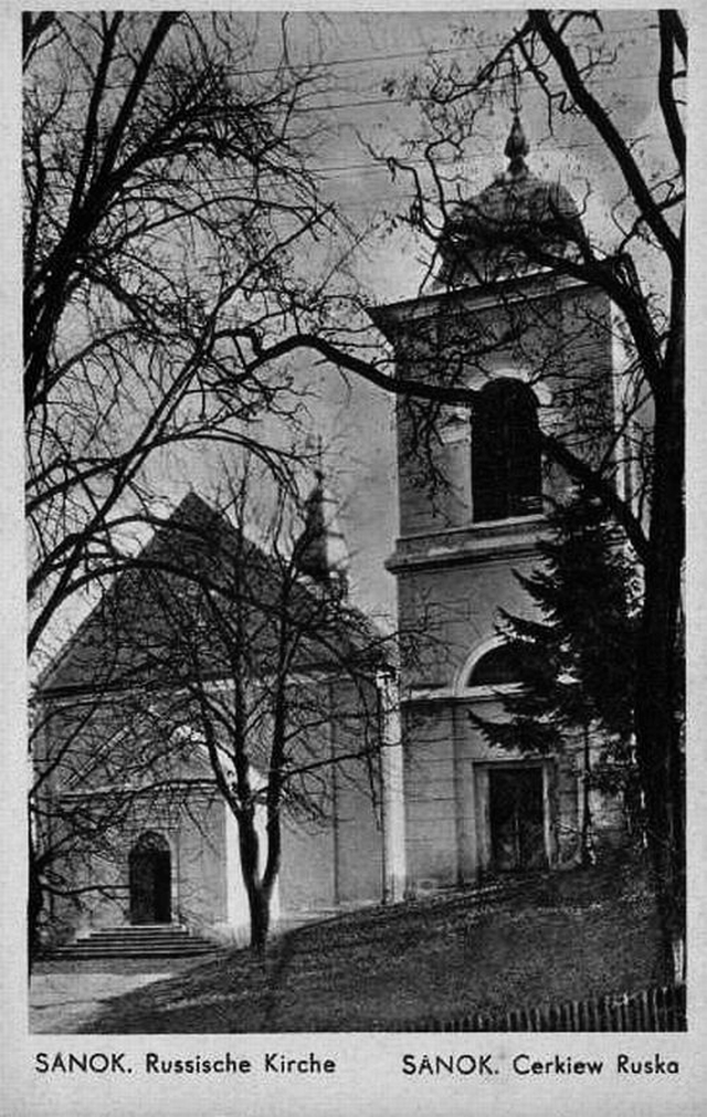 Descent of the Holy Spirit Ukrainian Catholic Church in Sanok (postcard)